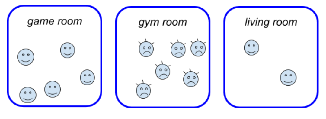 minority